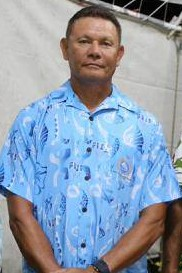 Ambassador Reed hosted a cocktail for U.S. Olympians Dwight Phillips and Hazel Clark and gave them an opportunity to meet members of the local sporting fraternity.